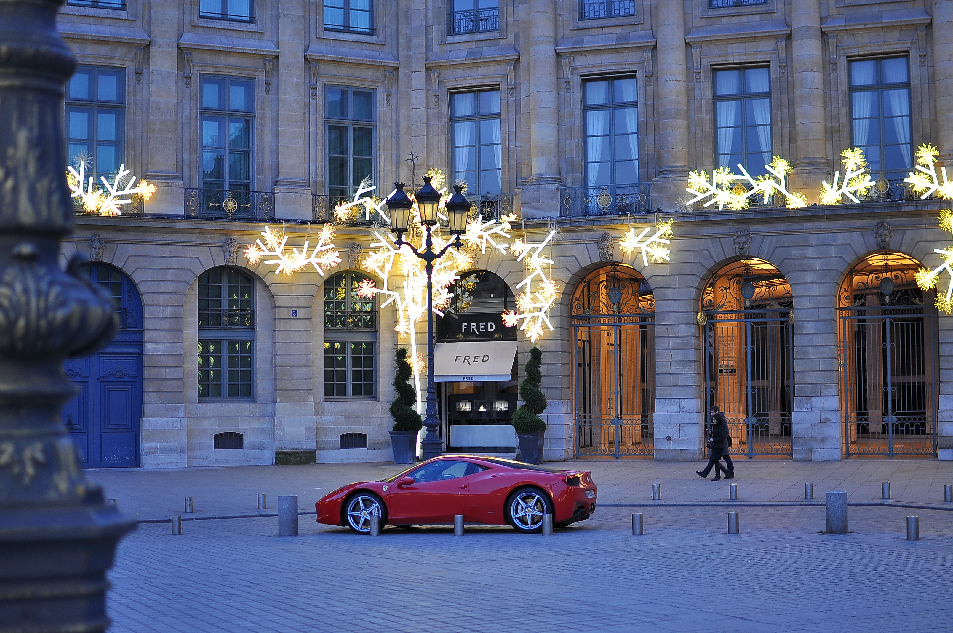 Hôtel Bristol at 3-5 Place Vendôme in the 1st district of Paris, France